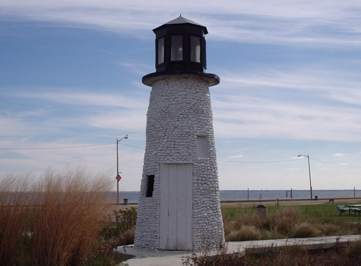 Photo by William J. Grimes at Buckroe Beach, Hampton, Virginia.